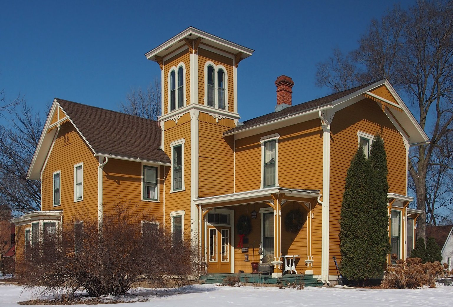 Byron Howes House, 718 Vermillion St, Hastings, Minnesota, USA. Viewed from the southeast.